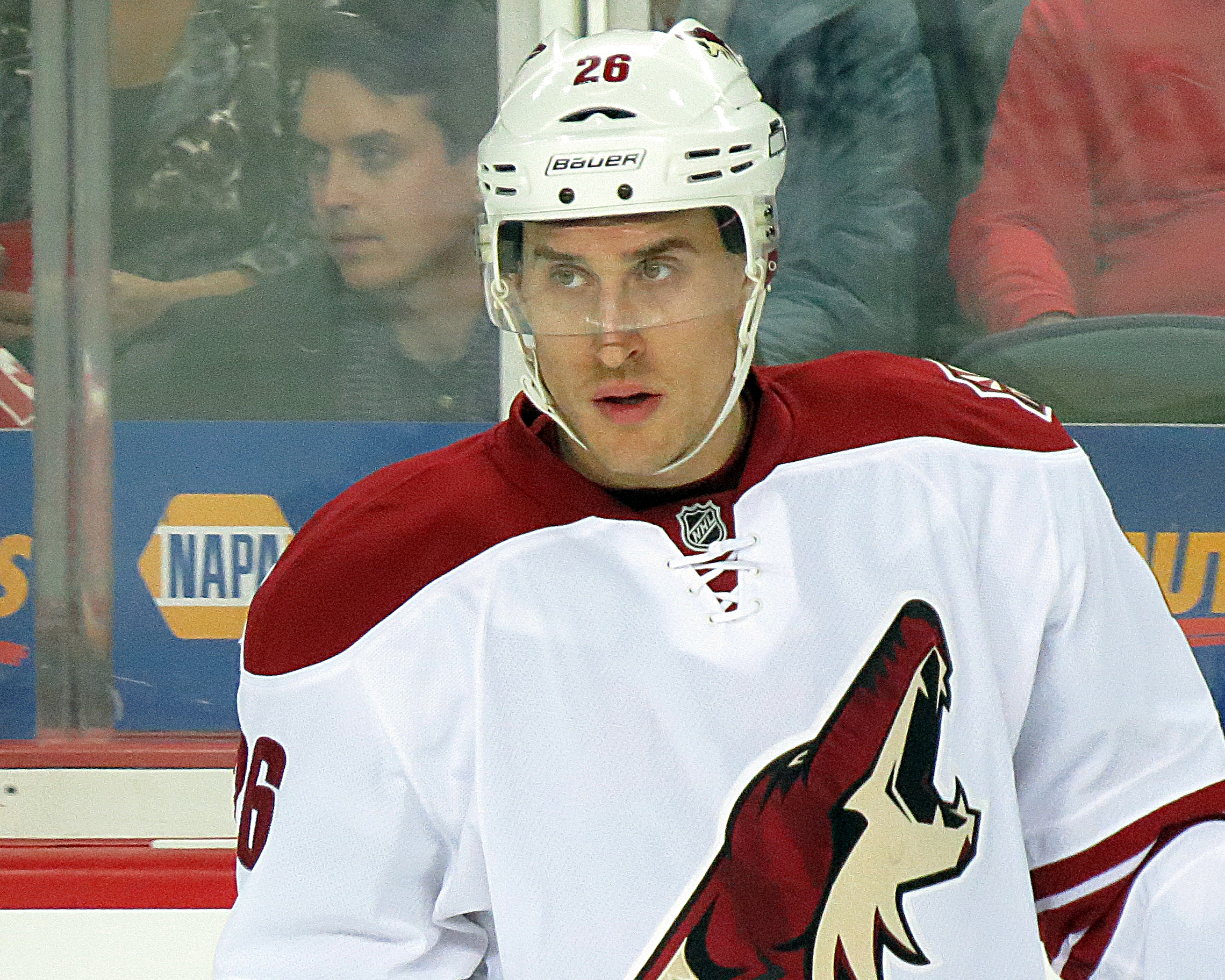 Michael Stone with the Coyotes in the 2013-14 season.